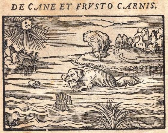 An illustration of "The Dog and its Reflection" from an edition of Aeop's fables in Latin verse by Hieronymus Osius (1564)